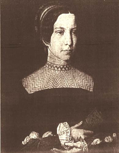 Madeleine de la Tour d'Auvergne, Duchess of Urbino, daughter of Jean III. de La Tour d'Auvergne and Jeanne La Jeune de Bourbon, wife of Duke Lorenzo II de' Medici of Urbino, mother of Caterina de' Medici, Queen of France, 16th century.